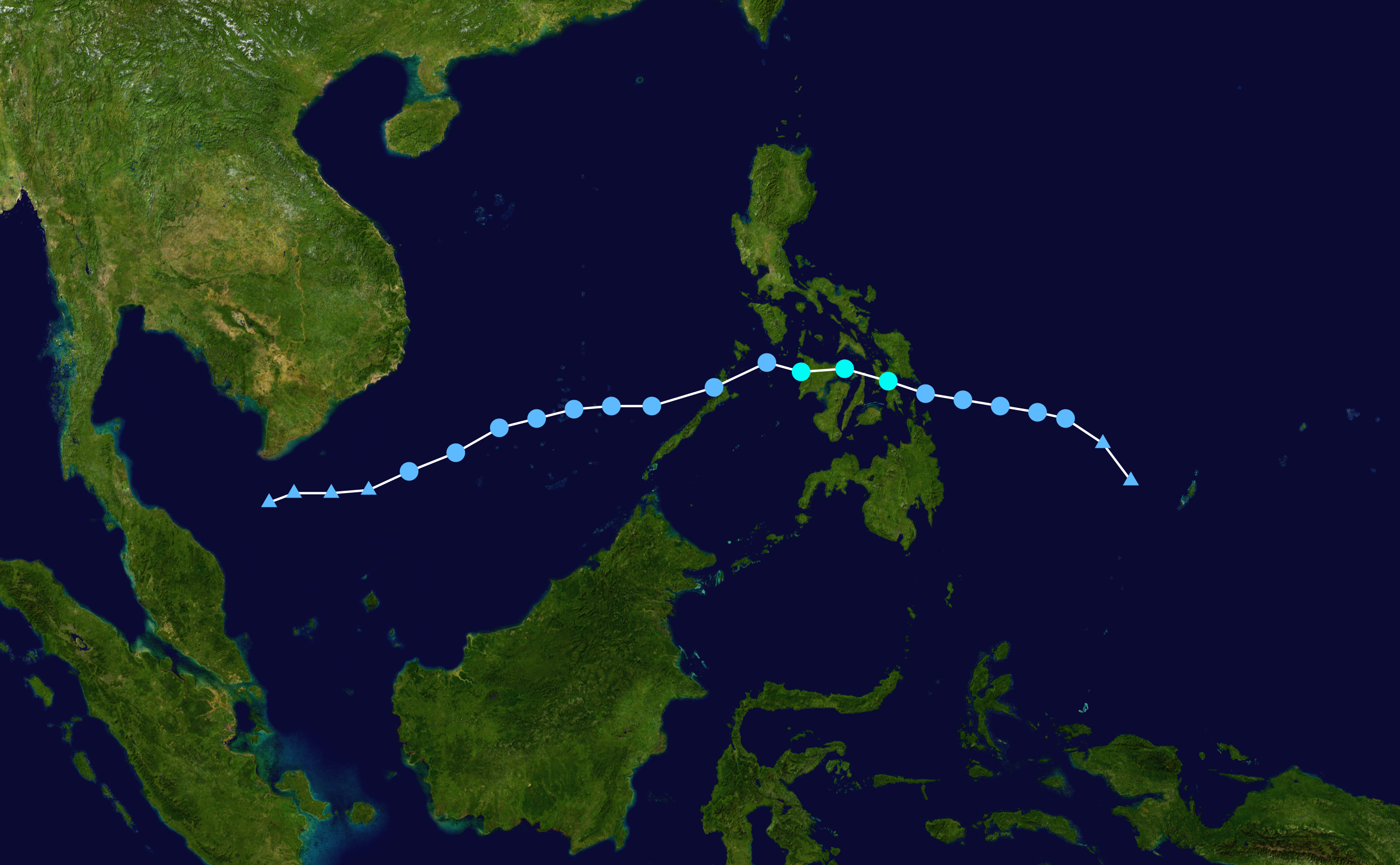 Track map of Tropical Storm Wukong of the 2012 Pacific typhoon season. The points show the location of the storm at 6-hour intervals. The colour represents the storm's maximum sustained wind speeds as classified in the Saffir–Simpson scale (see below), and the shape of the data points represent the nature of the storm, according to the legend below. Saffir–Simpson scale Tropical depression≤38 mph≤62 km/h Category 3111–129 mph178–208 km/h Tropical storm39–73 mph63–118 km/h Category 4130–156 mph209–251 km/h Category 174–95 mph119–153 km/h Category 5≥157 mph≥252 km/h Category 296–110 mph154–177 km/h Unknown Storm type Tropical cyclone Subtropical cyclone Extratropical cyclone / Remnant low / Tropical disturbance / Monsoon depression